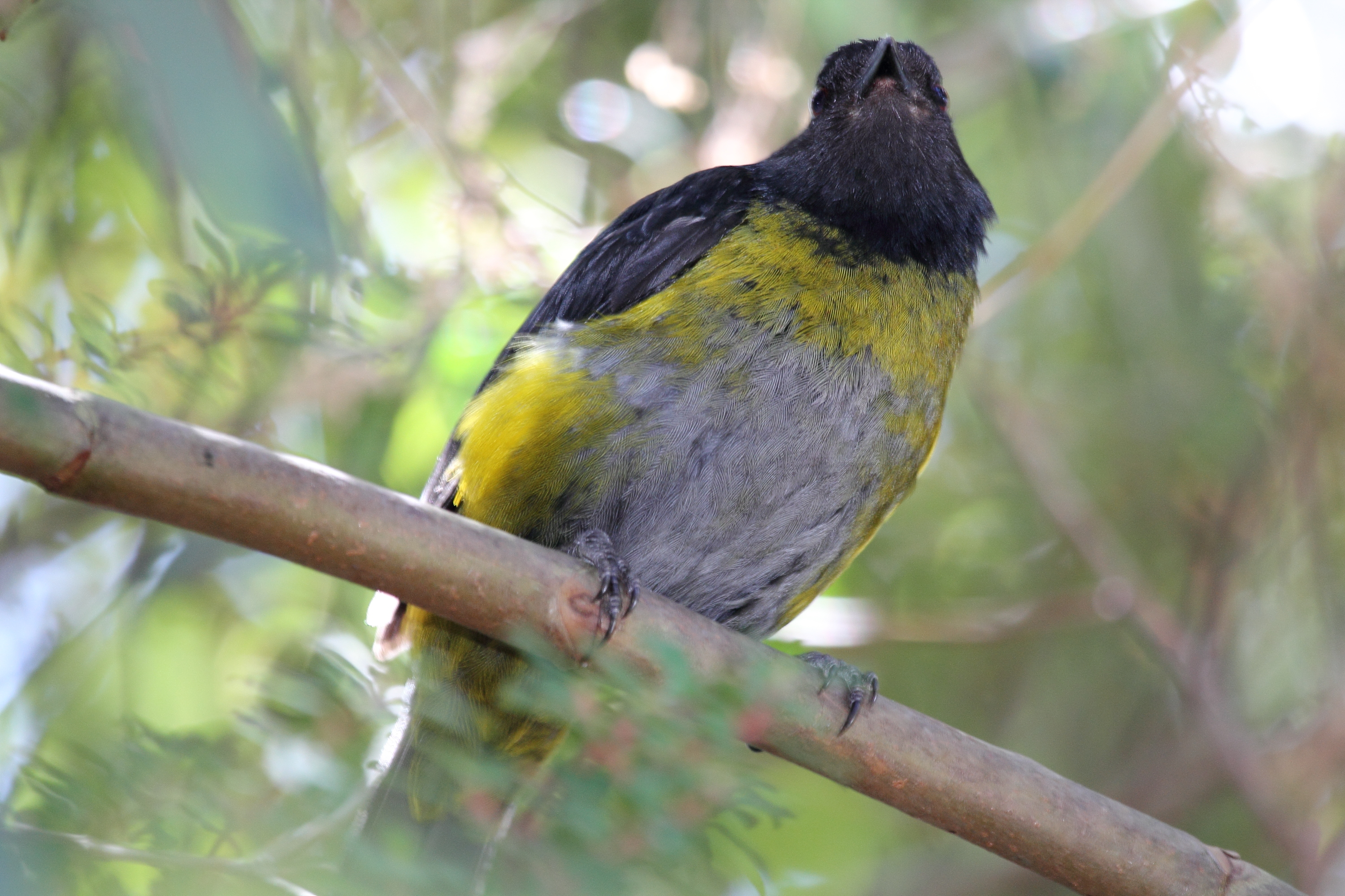 Photographed at Volcan Poas Park, Costa Rica.